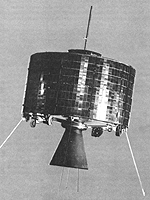 Syncom 2 - first geosynchronous satellite